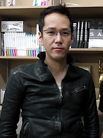 Met up with Ghost in the Shell Director Kenji Kamiyama and producer Tomohiko Ishii. View more at